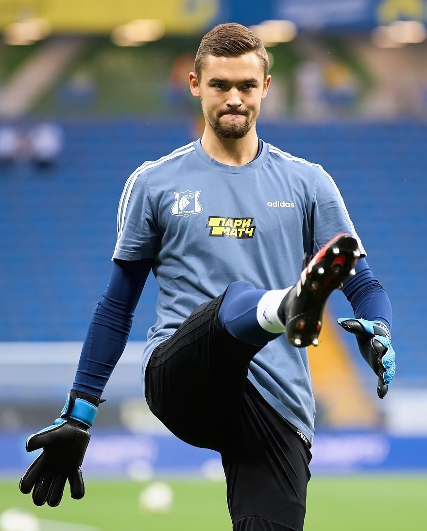 Maksim Rudakov warming up with FC Rostov before the game against FC Ufa.